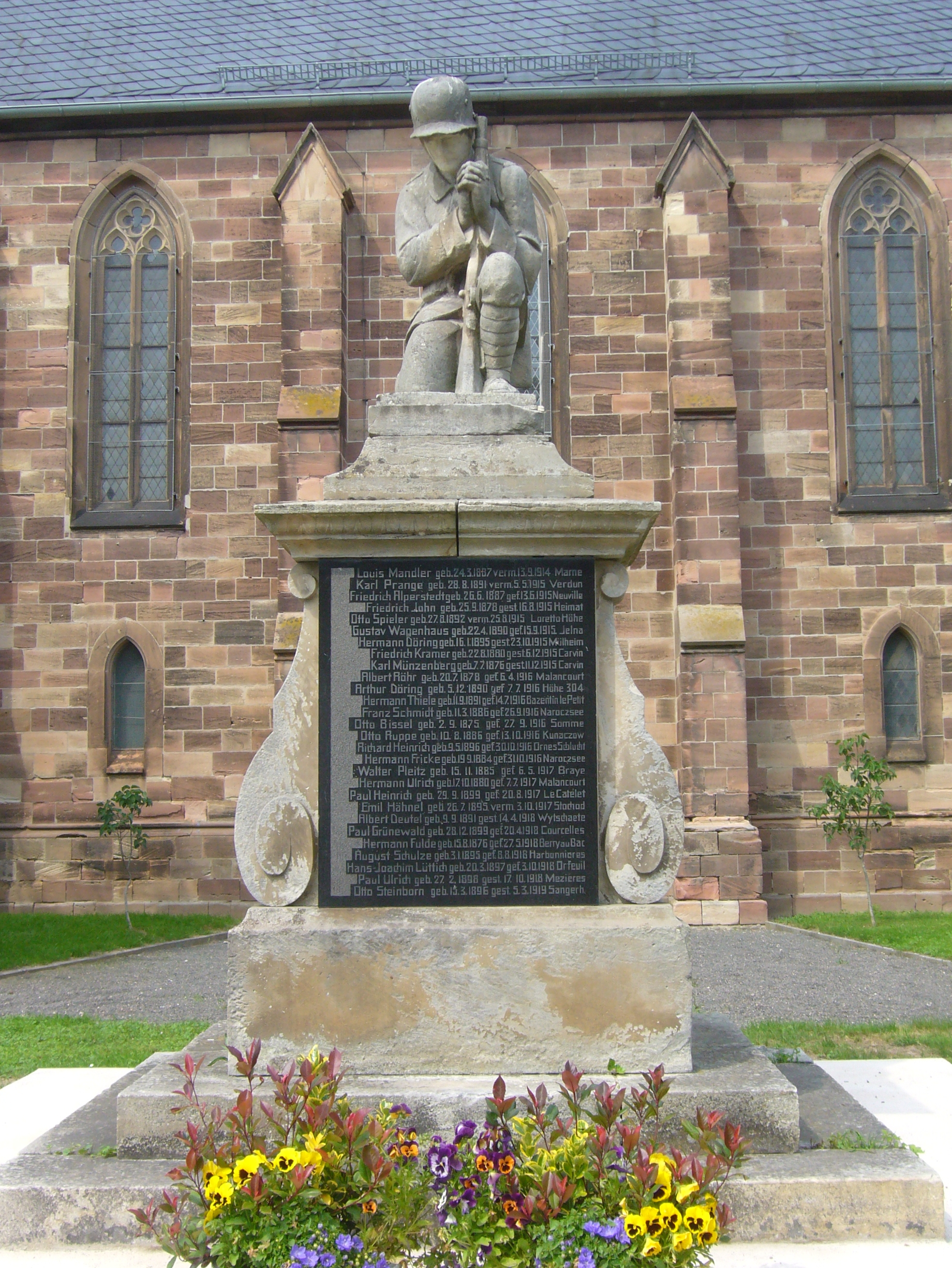 War memorial World War 1 in Gehofen, Kyffhäuser region, Germany